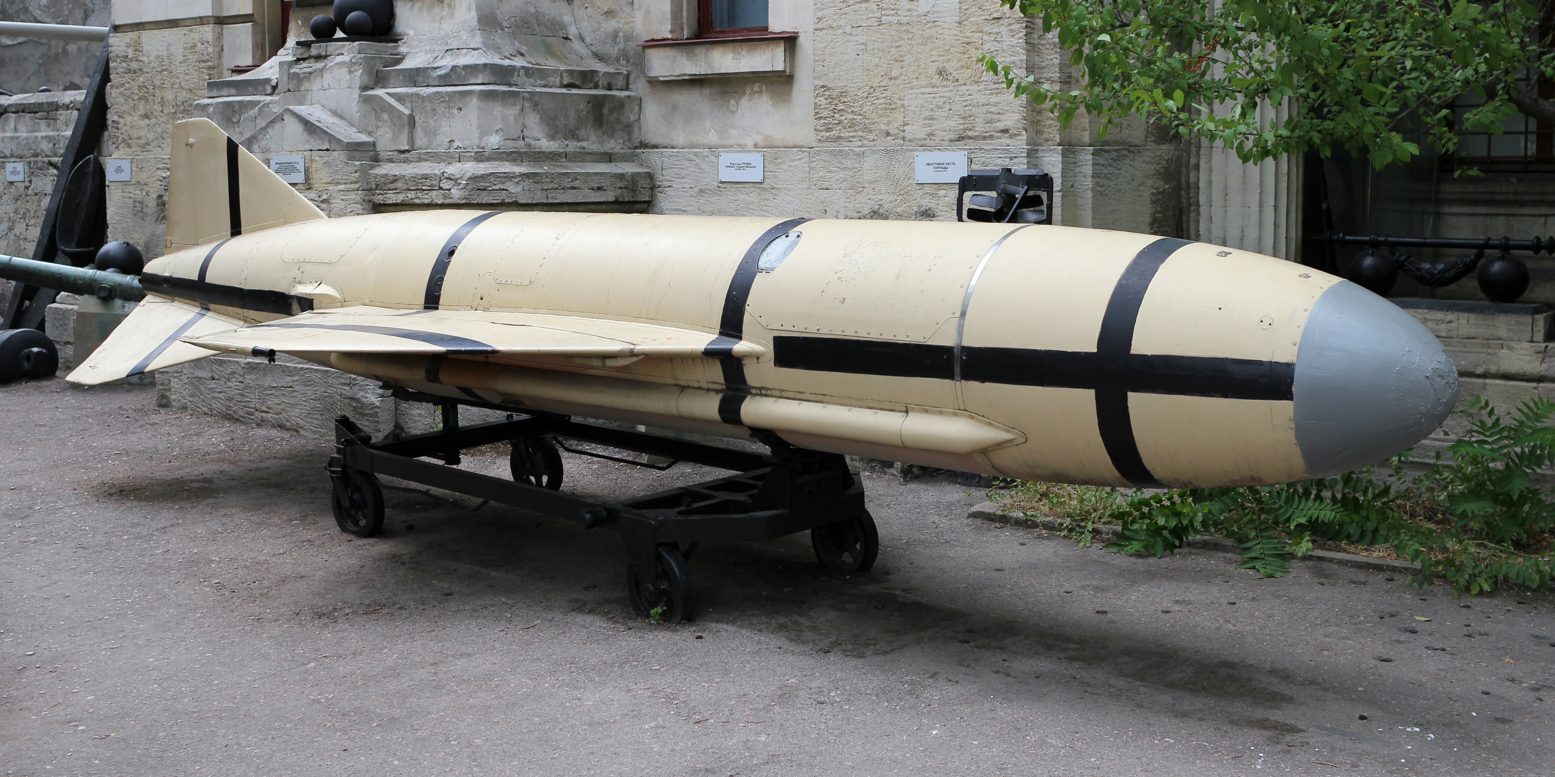 The P-15 Termit (SS-N-2 Styx) anti-ship missile in the Black Sea Fleet Museum, Sevastopol.